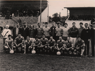 1987 State Champions